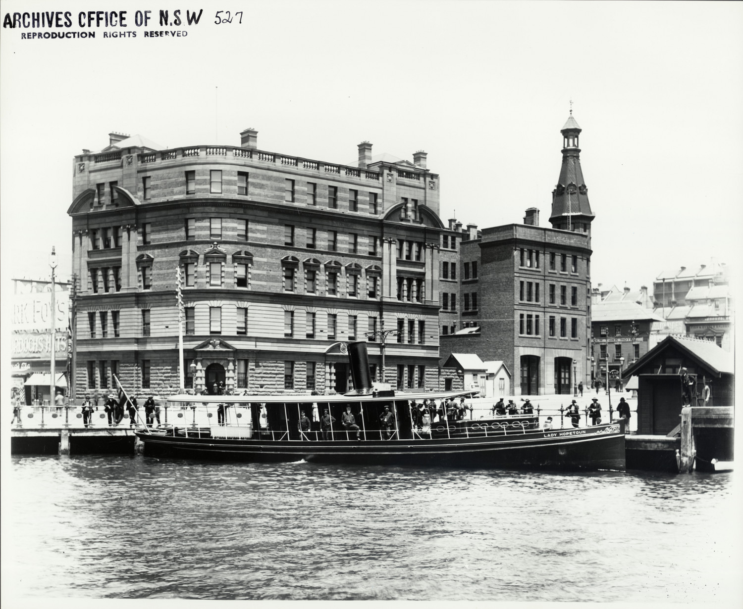 Western side of Circular Quay intersection of Pitt and Barton Streets - the 'Lady Hopetoun' is seen in the foreground